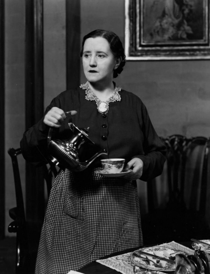 Photo of actress Sara Allgood in the play Shadow and Substance.